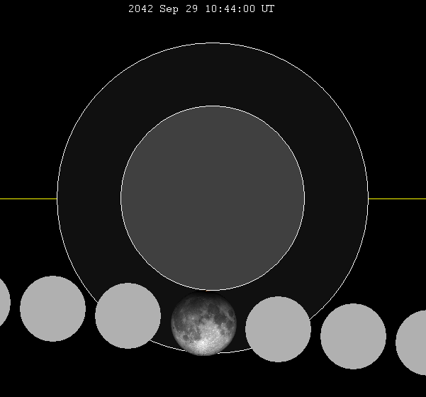 September 2042 lunar eclipse chart of moon's path through the earth's shadow. thumb